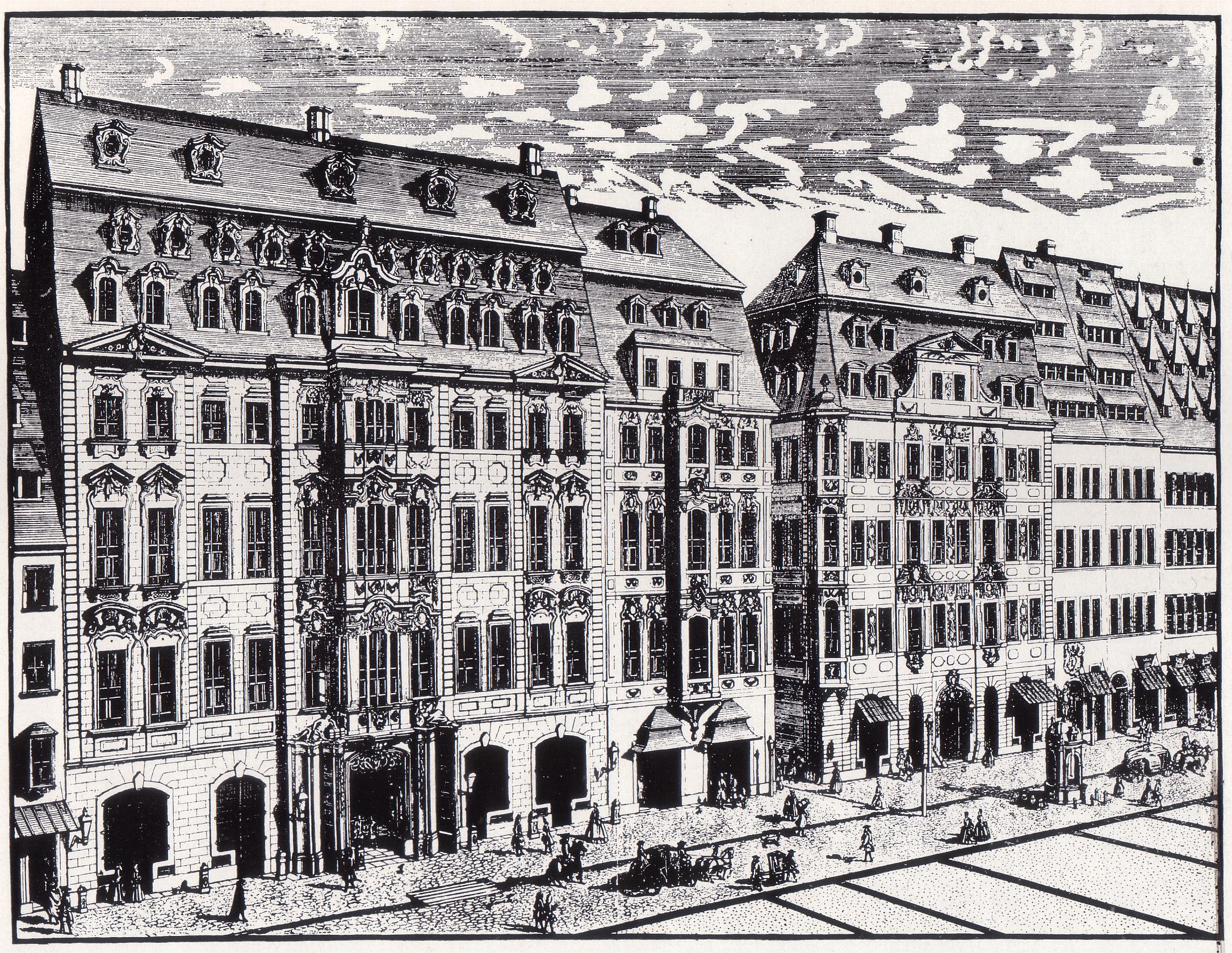 scetch: Leipzig (Germany), Katharinen street 14-16, ca. 1720 p.C.